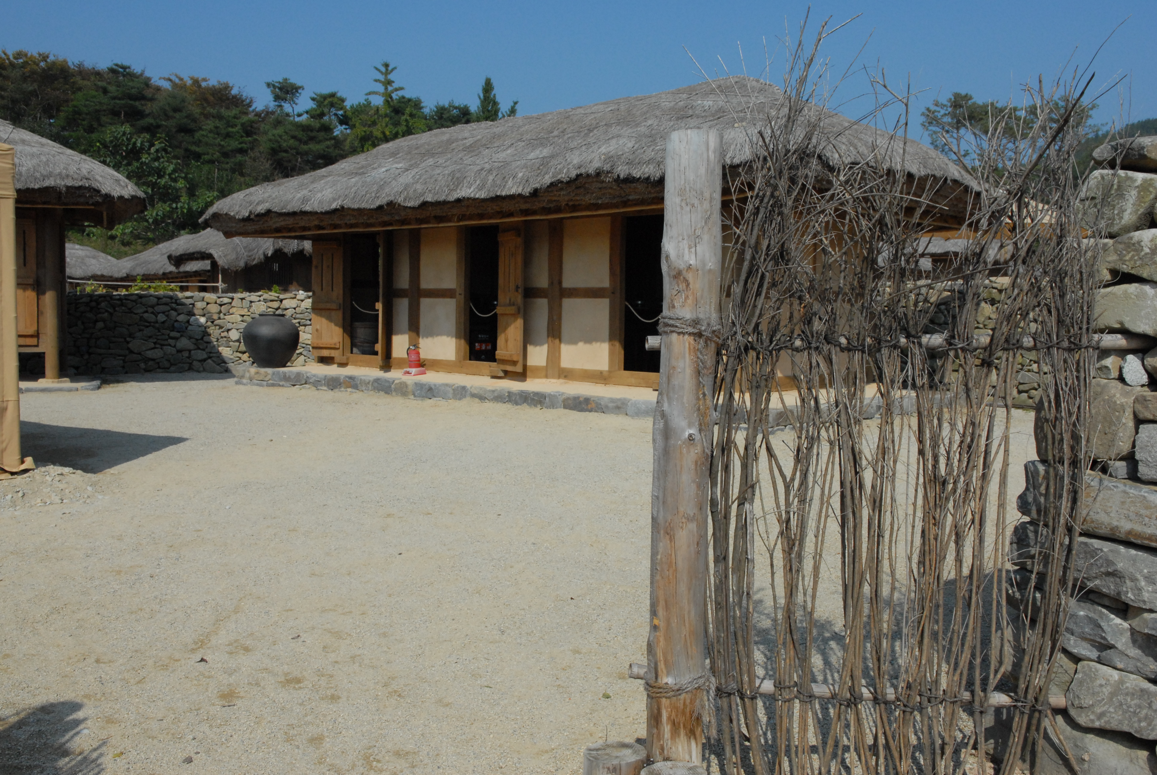 Learn more about the U.S. Army in Korea Description : Common people's house in Baekje [#// Learn more about the Baekje cultural festival] U.S. Army photo by Hong, Seung Hui.